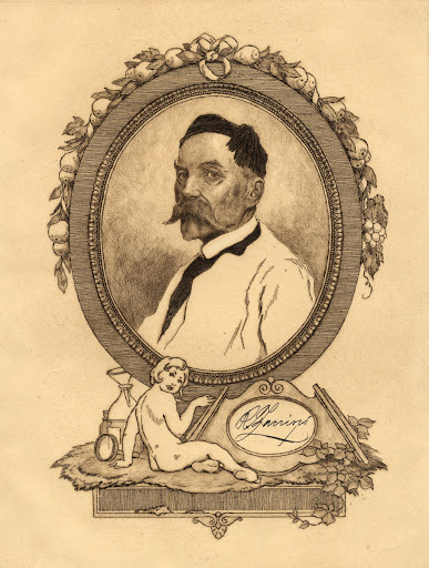 Rihards Zariņš, self-portrait, 1936, Latvian National Museum